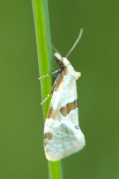 Picture taken in Commanster, Belgian High Ardennes . Please contact James Lindsey when you think this is a different taxon. James Lindsey, the copyright holder of this work, hereby publishes it under the following licenses: Attribution: James Lindsey at Ecology of Commanster